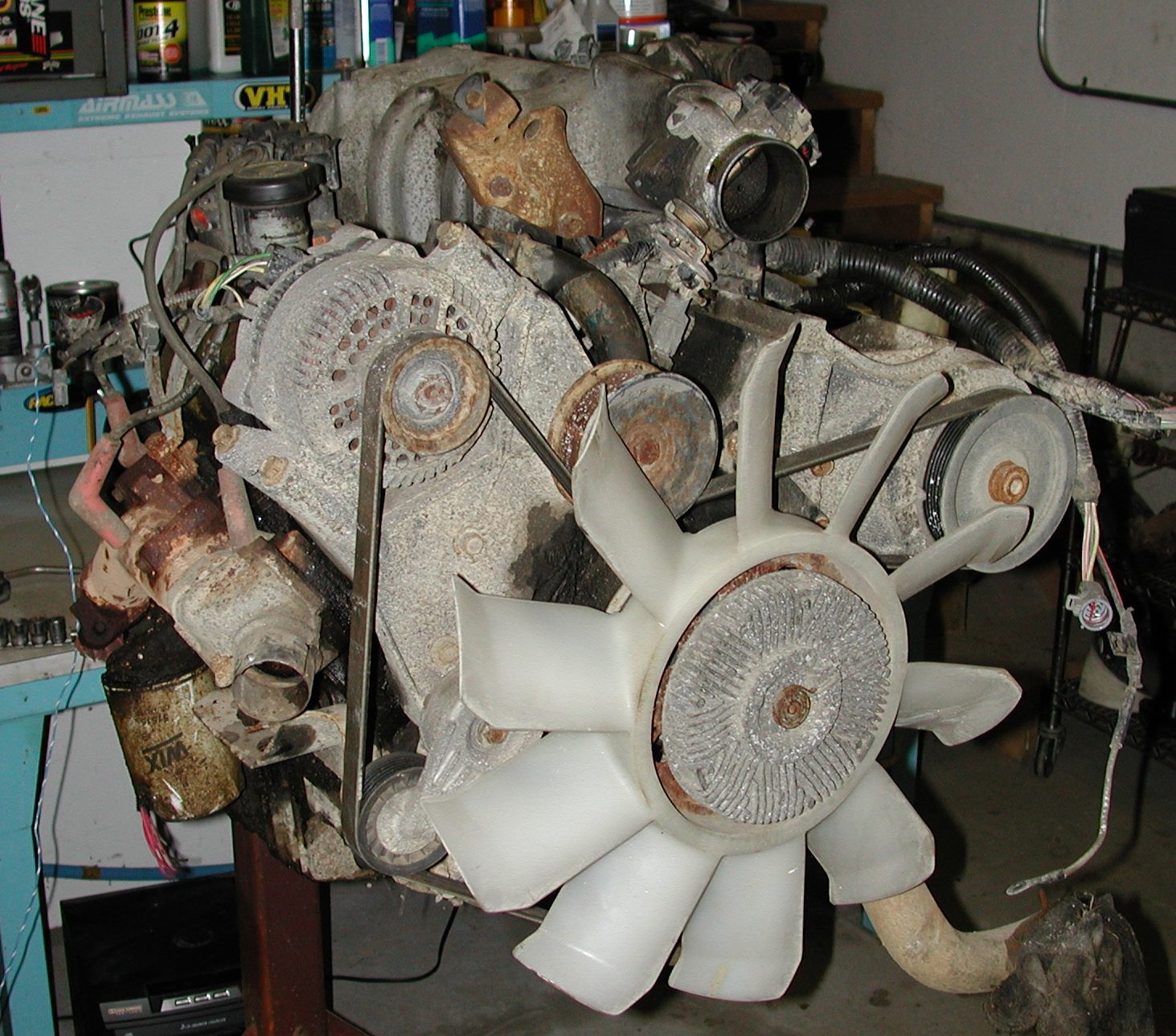 My 1992 4.0 V6 from a ranger destined for a bronco II